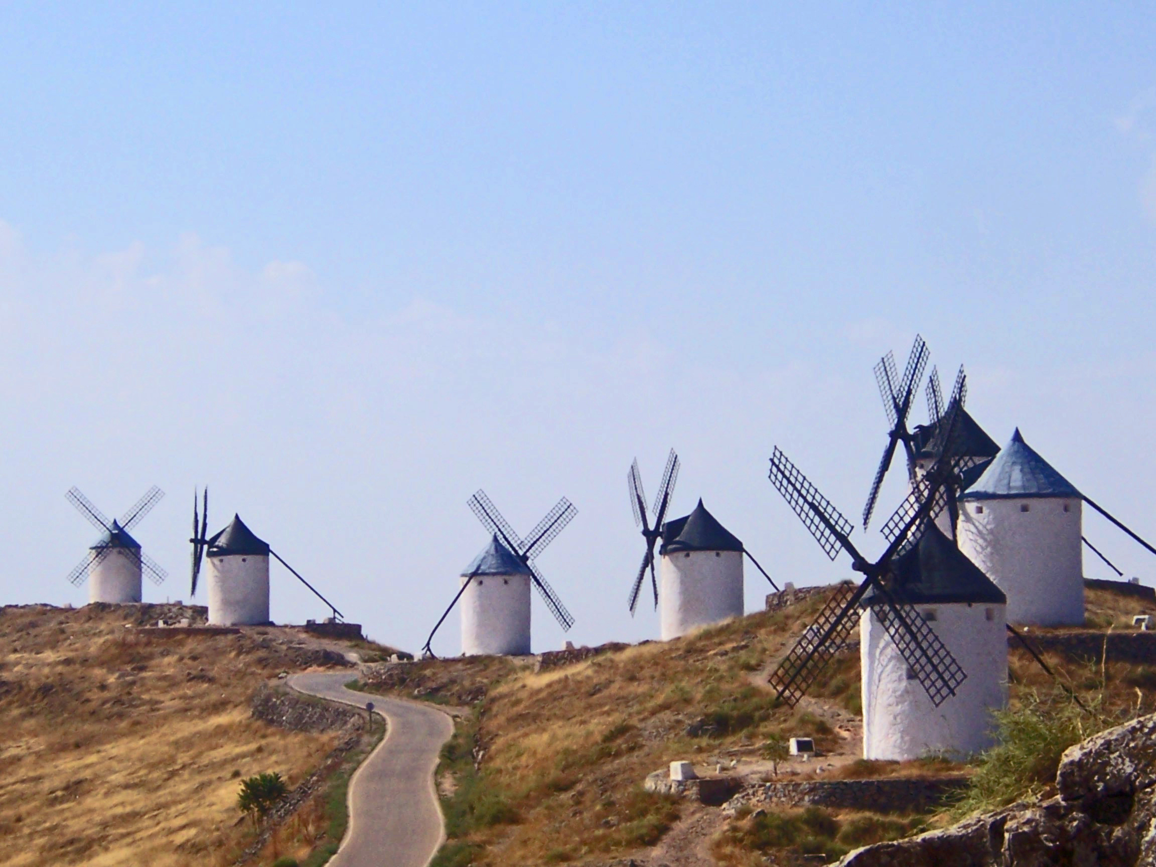 (Unidentified location, although I assume it is Spain, Mtaylor848 (talk) 20:15, 17 November 2010 (UTC))